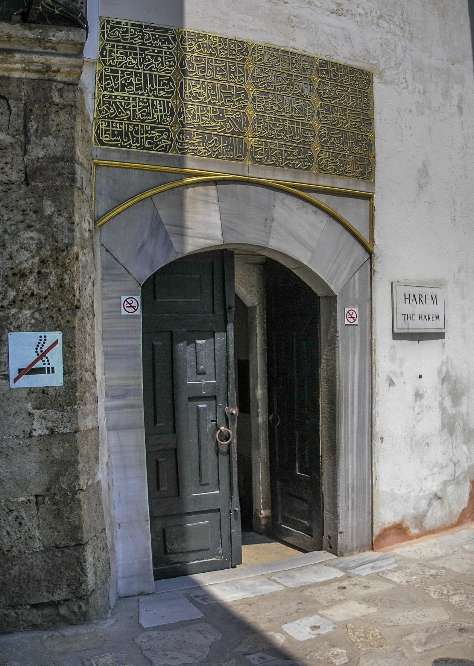 Entrance to the Harem in Topkapi Palace in Istanbul.